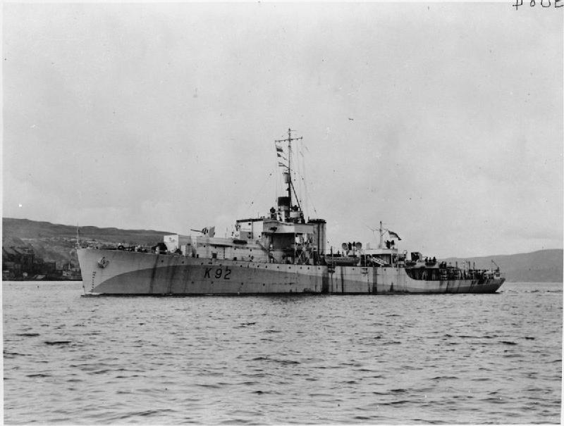 Photograph of River class frigate HMS Exe.